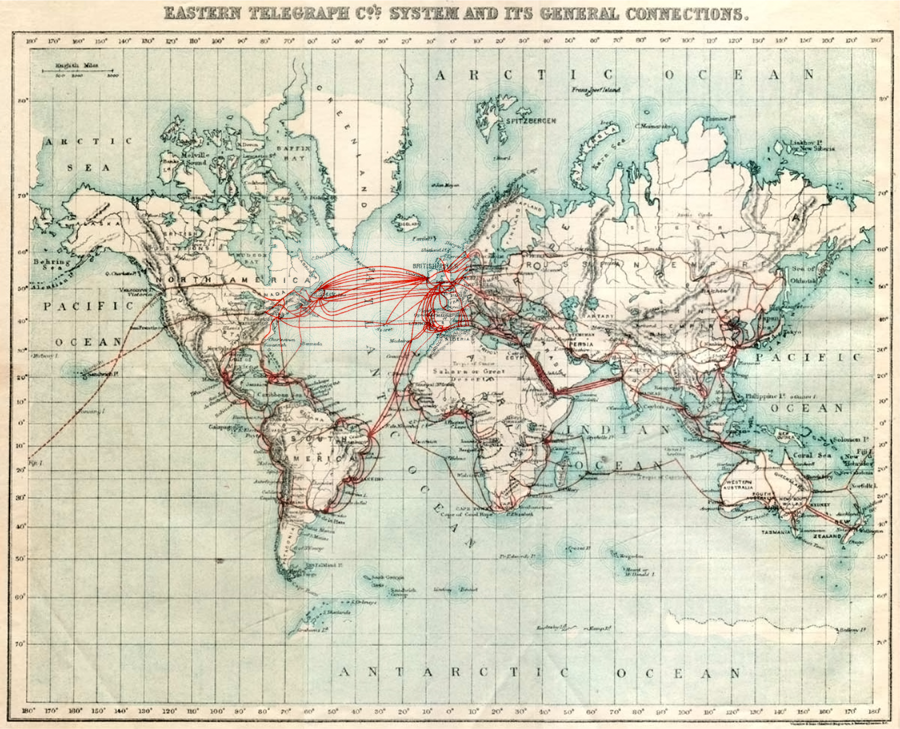 The Eastern Telegraph Co.: System and its general connections. Chart of submarine telegraph cable routes, showing the global reach of telecommunications at the beginning of the 20th century